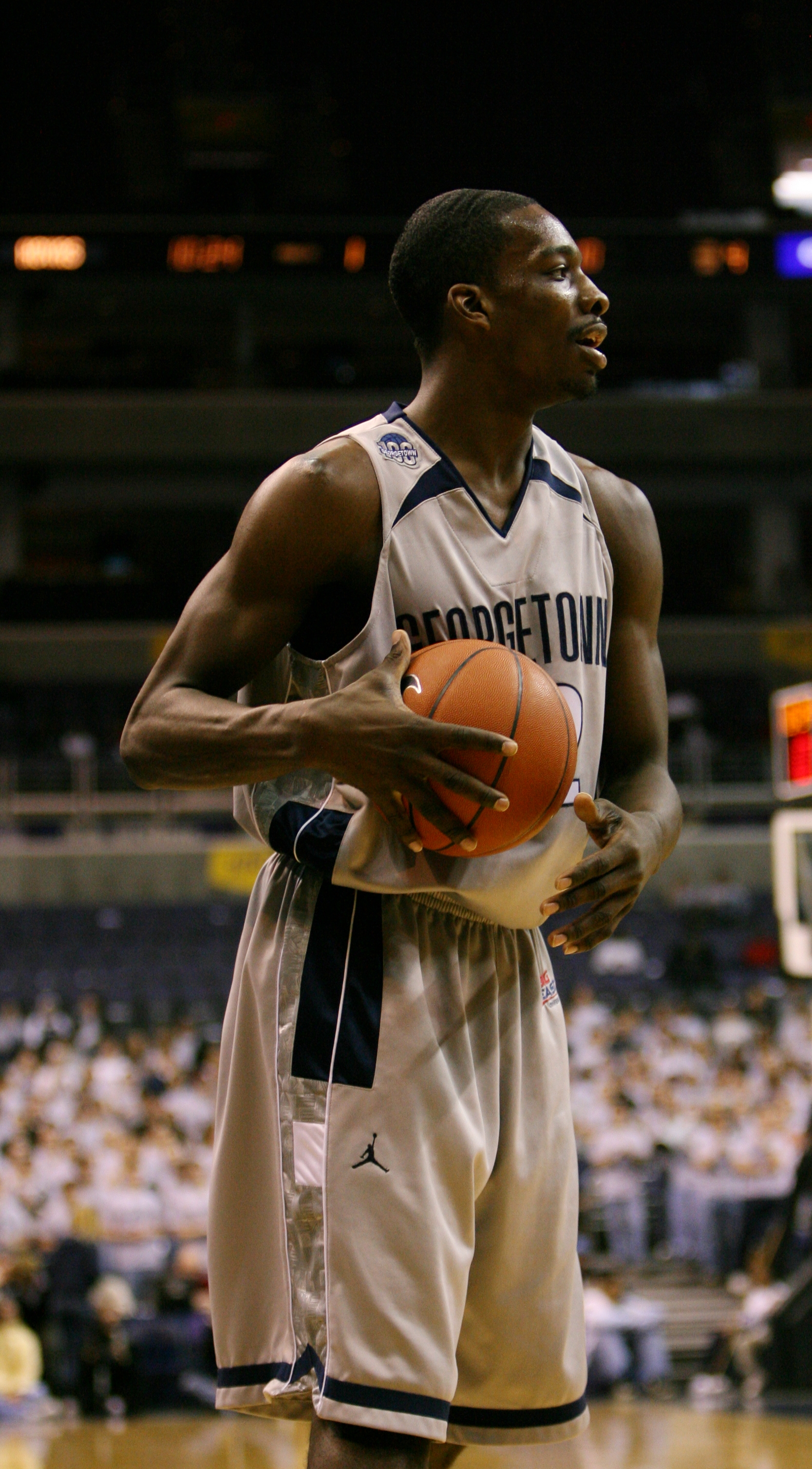 Jeff Green holding the basketball at a game against the Oral Roberts Golden Eagles